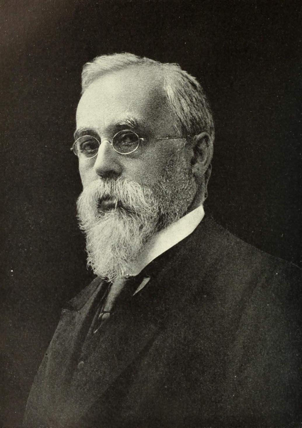 Portrait of Sergey Muromtsev